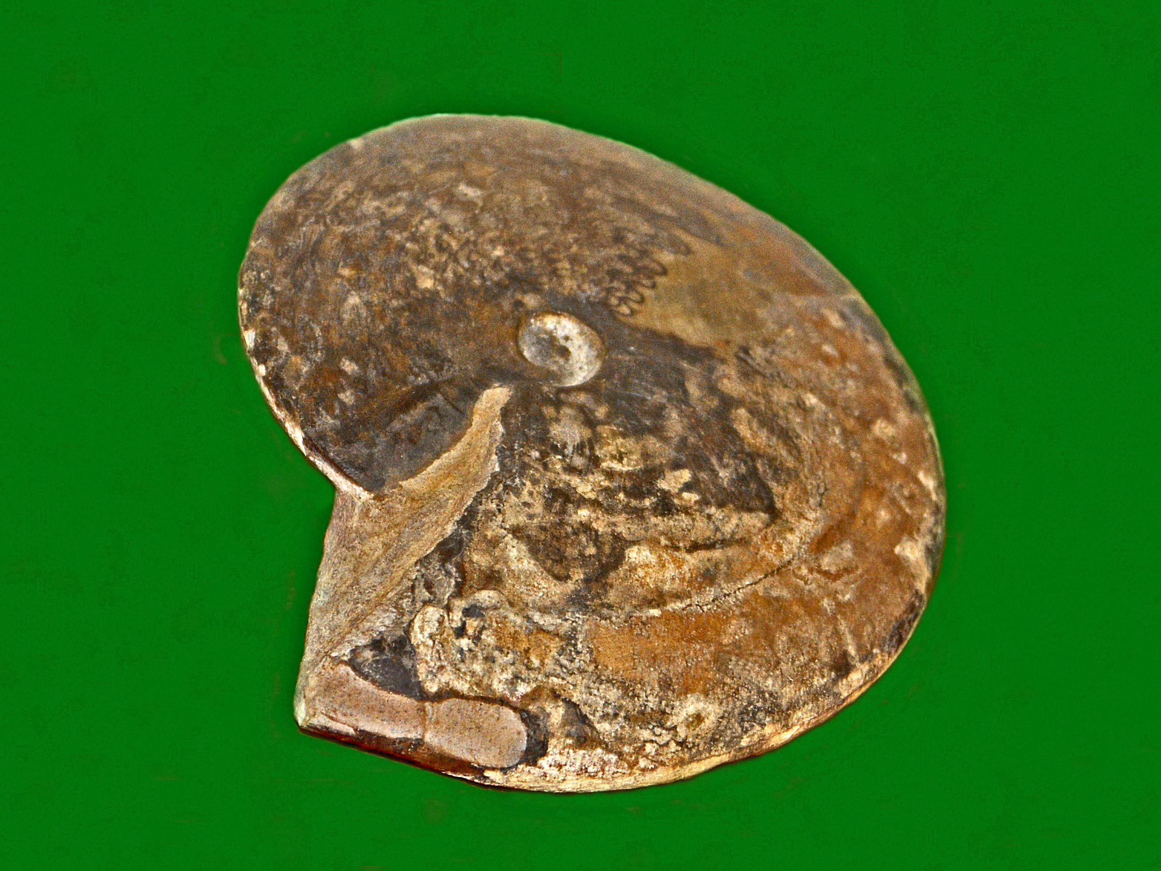 Fossil shell of Hedenstroemia tscherskii from Madagascar, on display at Gallery of Paleontology and Comparative Anatomy, Paris.